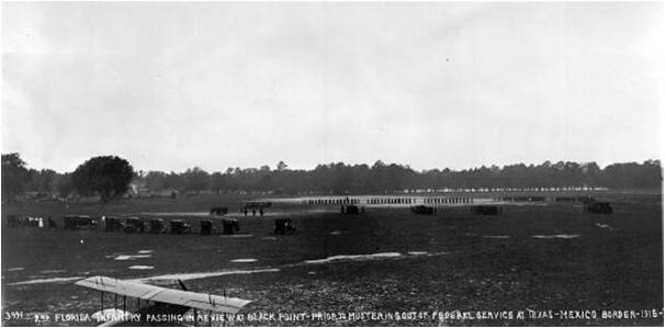 2nd Florida Infantry Regiment mobilized to the Texas-Mexico border in 1916 during the Punitive Expedition against Pancho Villa. This picture is of the Regiment passing in review at Camp Foster in Jacksonville prior to deployment. N048518